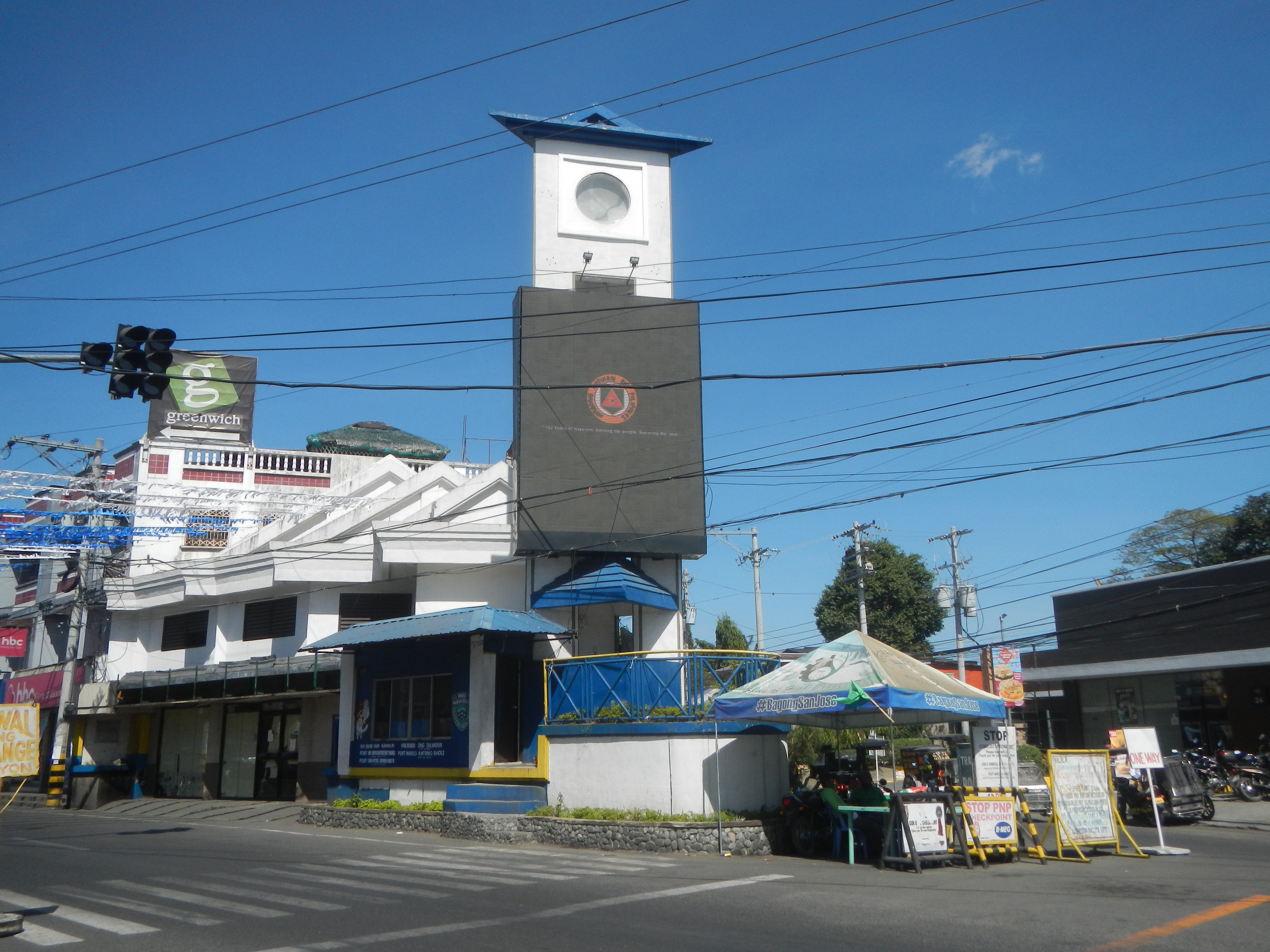 Sitio from or along Maharlika Highway (Cagayan Valley Road, San Jose City, Nueva Ecija section) Category:Barangays of Nueva Ecija Barangay Malasin 15.8110, 121.0005 Crisanto Sanchez (Poblacion), San Jose City, Nueva Ecija 15.7940, 120.9882 Ferdinand E. Marcos (Poblacion), San Jose City, Nueva Ecija 15.8008, 120.9982 Calaocan, San Jose City, Nueva Ecija 15.7838, 120.9912 Raymundo Eugenio (Poblacion), San Jose City, Nueva Ecija 15.7912, 120.9924 Canuto Ramos (Poblacion), San Jose City, Nueva Ecija 15.7933, 120.9904 San Jose, Nueva Ecija Pan-Philippine Highway Philippine highway network (Note: Judge Florentino Floro, the owner, to repeat, Donor Florentino Floro of all these photos hereby donate gratuitously, freely and unconditionally Judge Floro all these photos to and for Wikimedia Commons, exclusively, for public use of the public domain, and again without any condition whatsoever).